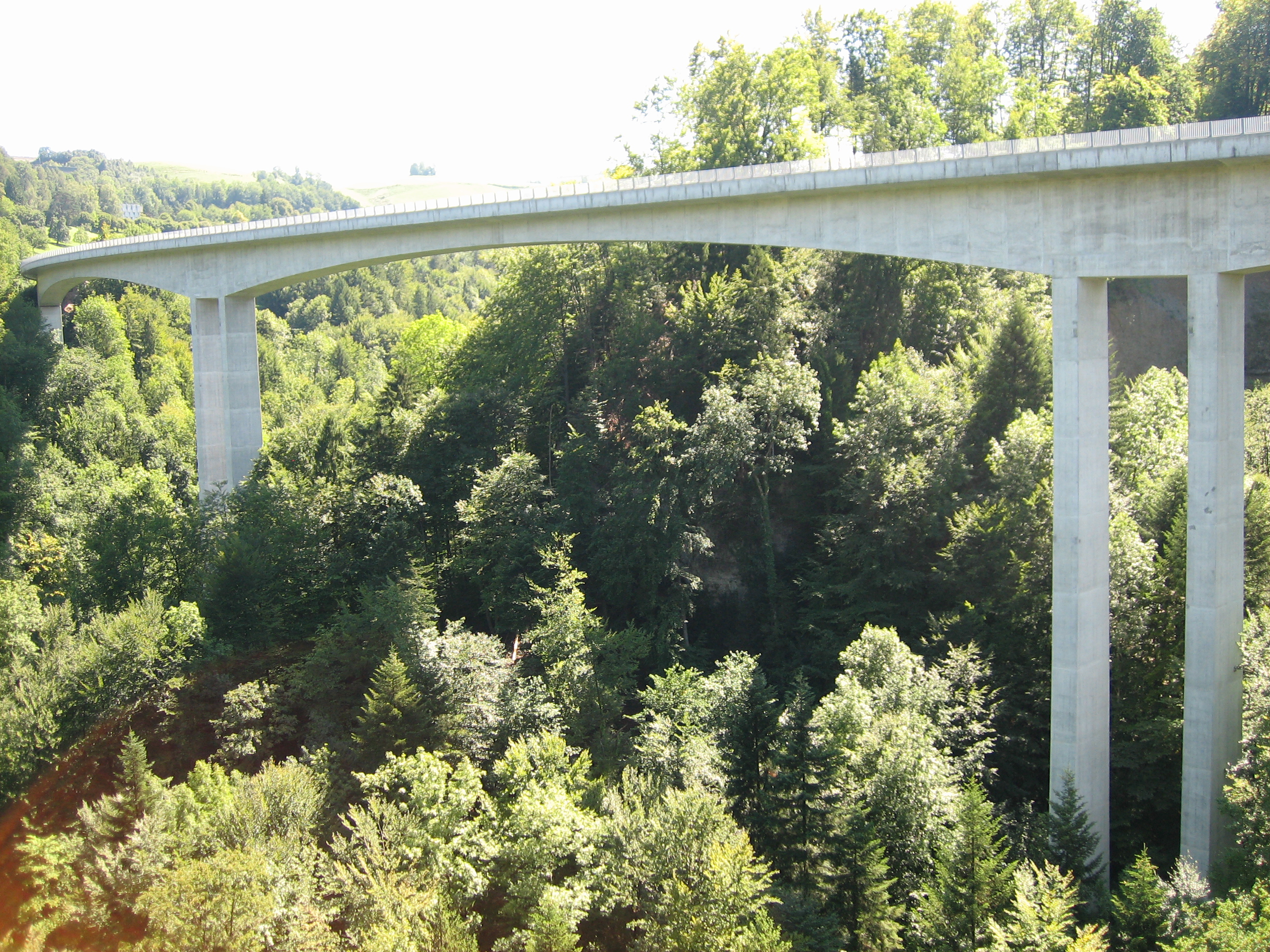 Bridges over the Lorze in Zug, Switzerland